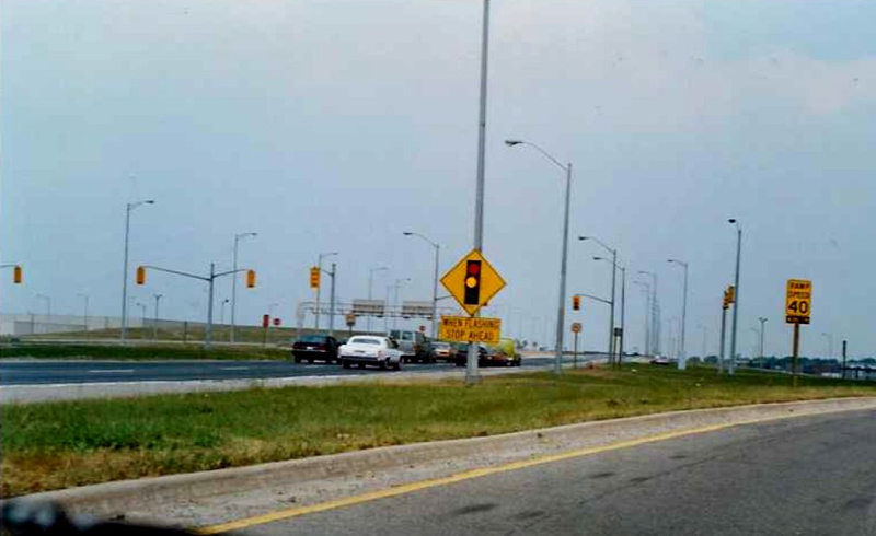 A photo of Highway 427 and Highway 409 in 1989, showing the traffic signal that allowed southbound 427 traffic to cross the highway and get on eastbound Highway 409. A flyover replaced this at-grade intersection in 1992.